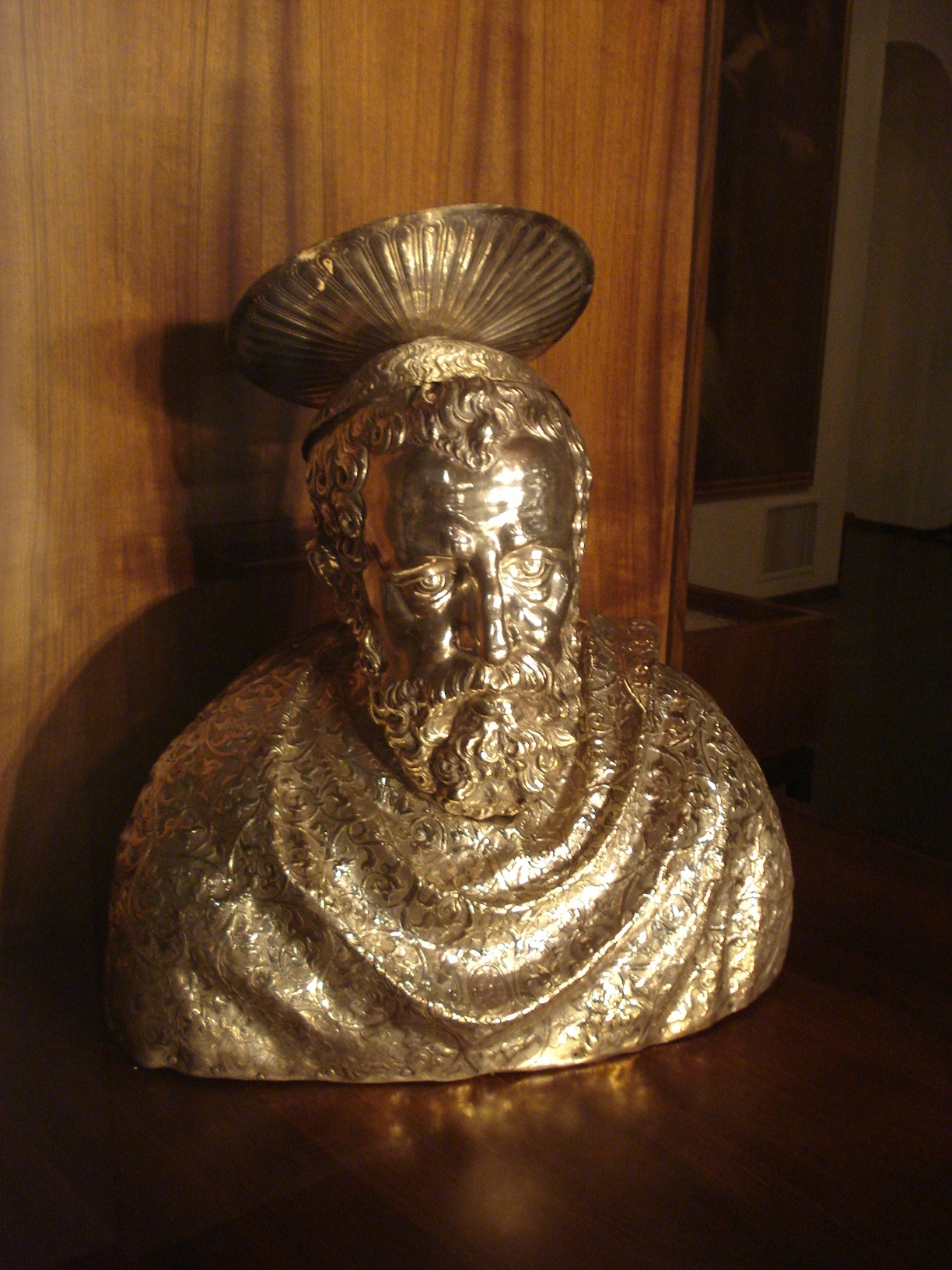 Bust (or head) reliquary of the pope Sixtus I (full face view), made in 1596, exhibited at The Permanent Ecclesiastical Art Exhibition "The Gold and Silver of Zadar" in the St. Mary's Church, Zadar, CroatiaHrvatski: Bista-relikvijar pape Siksta I. (pogled sprijeda), izrađen 1596, izložen na Stalnoj izložbi crkvene umjetnosti "Zlato i srebro Zadra" u crkvi sv. Marije u Zadru, Hrvatska